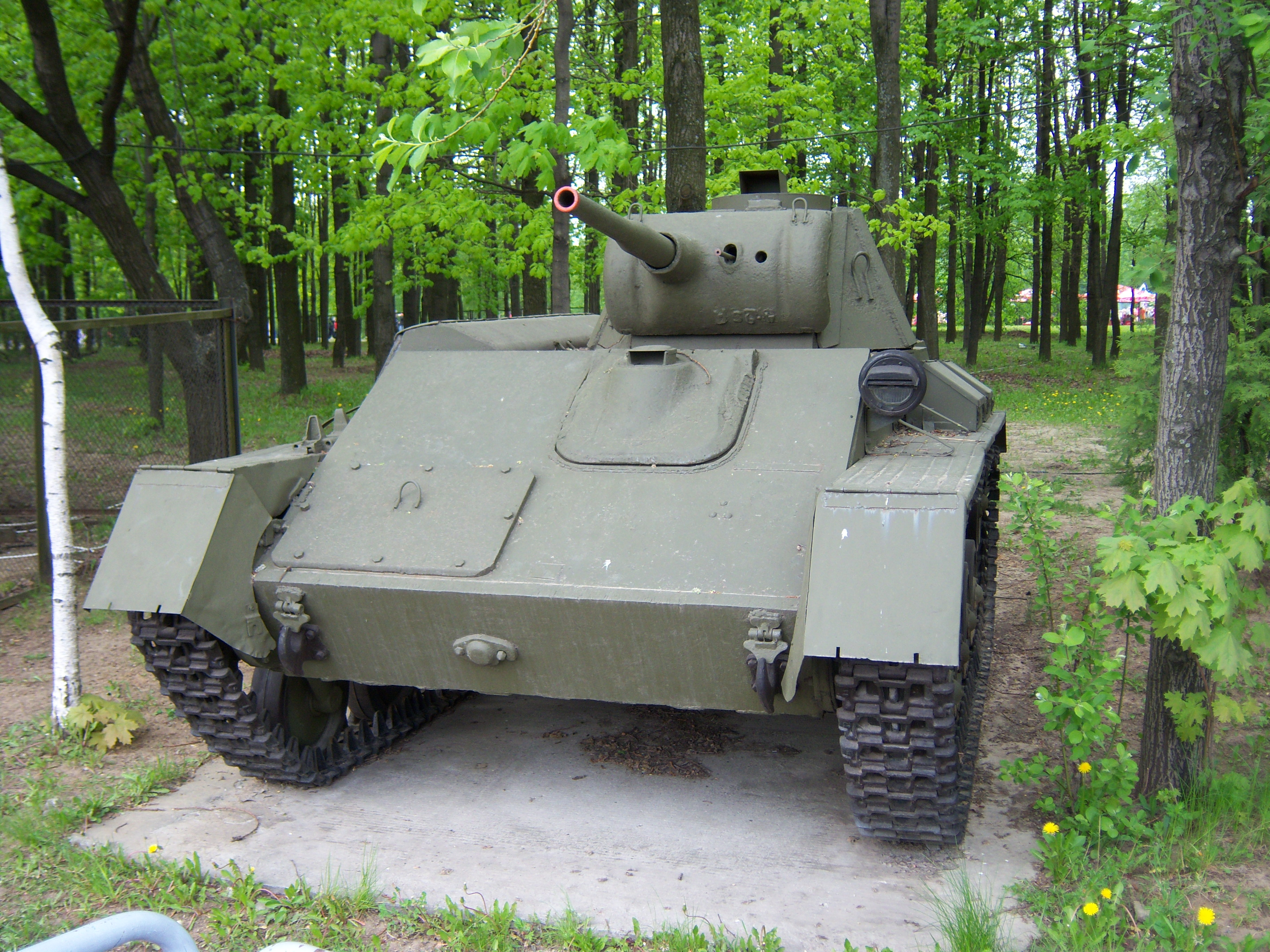 T-70 tank.